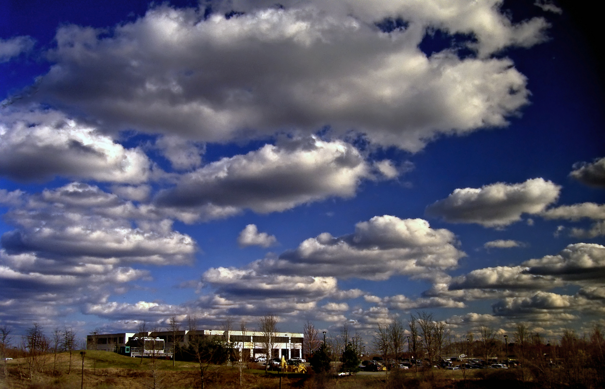 Taken from my office window.